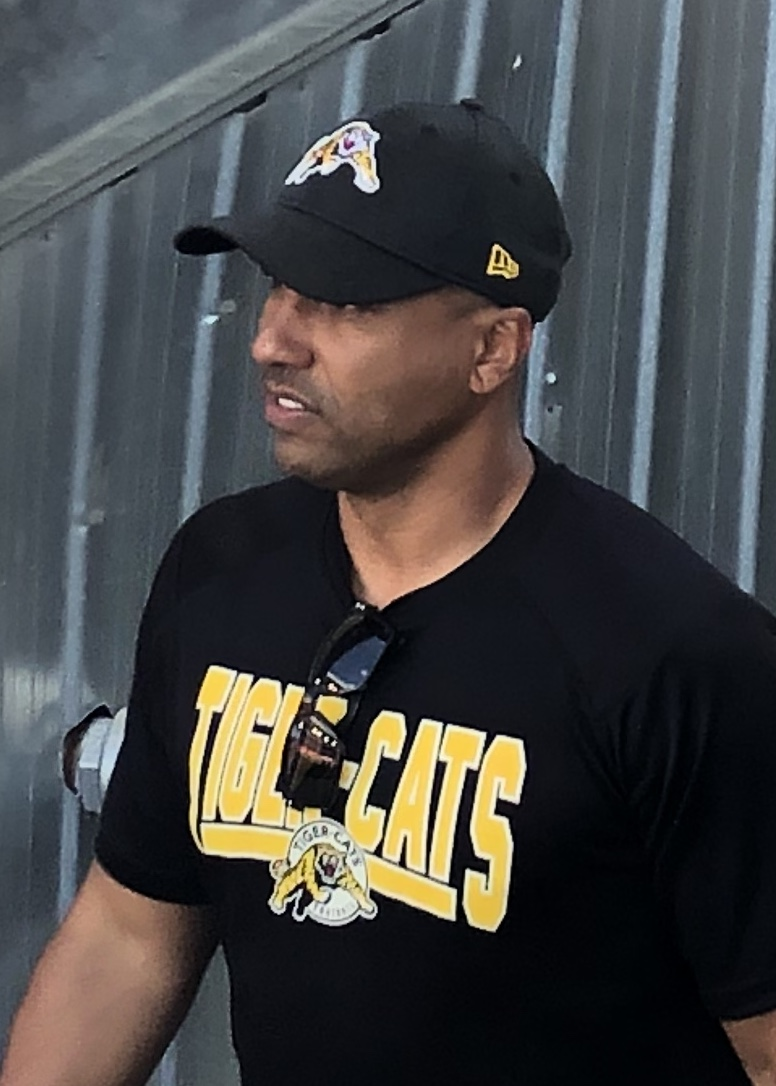 Orlondo Steinauer, head coach for the Hamilton Tiger-Cats.